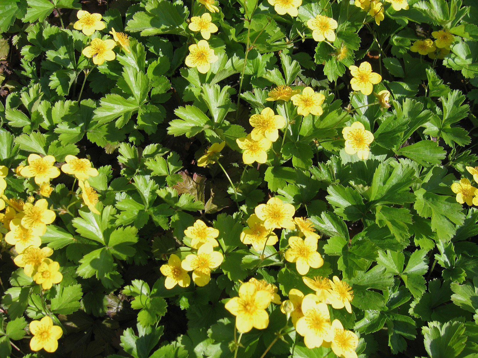 Waldsteinia ternata in flower, cultivated in Wrocław University Botanical Garden, Wrocław, Poland.